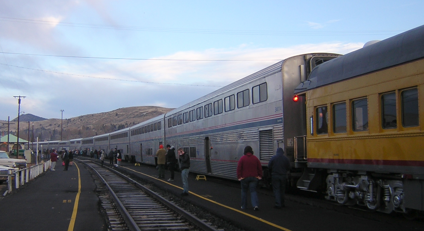 Amtrak Coast Starlight (train #14) makes a service stop in Klamath Falls, Oregon. Several private cars, empty, are pulled behind the Superliner coaches.